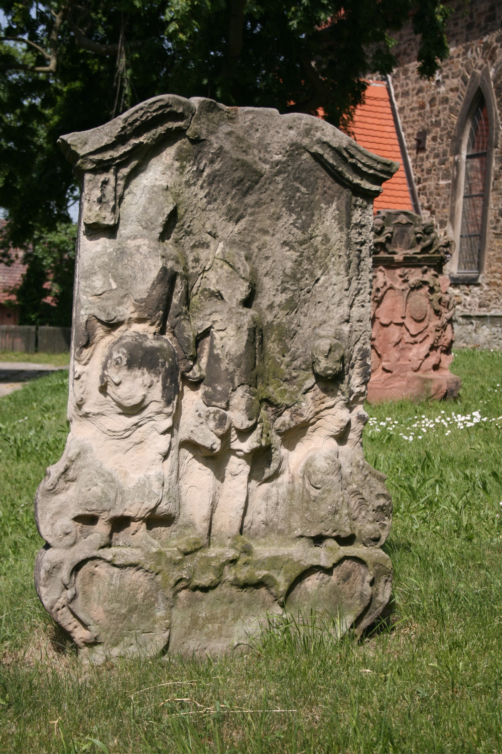 Volkstedt (Eisleben) St. Peter And Paul: Gravestone 3